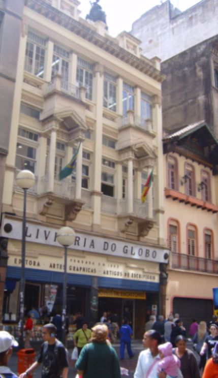 The traditional Globo bookshop and publishing house, Porto Alegre, Brazil, Sept. 2006, own work